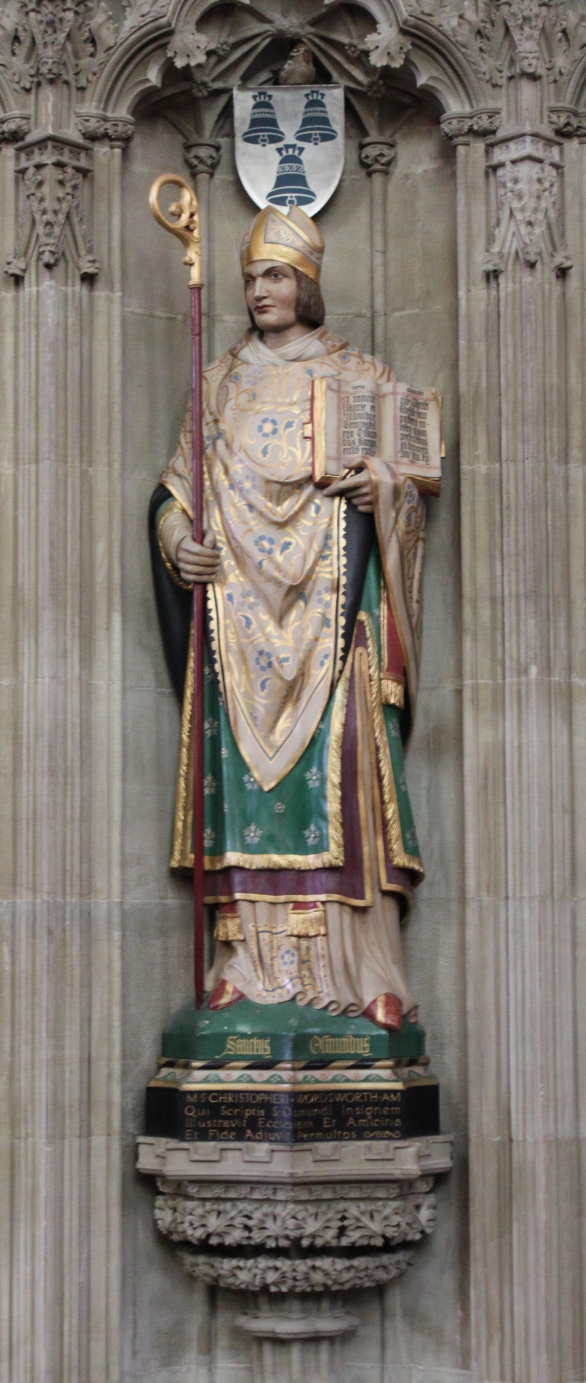 St Osmund statue in Salisbury Cathedral